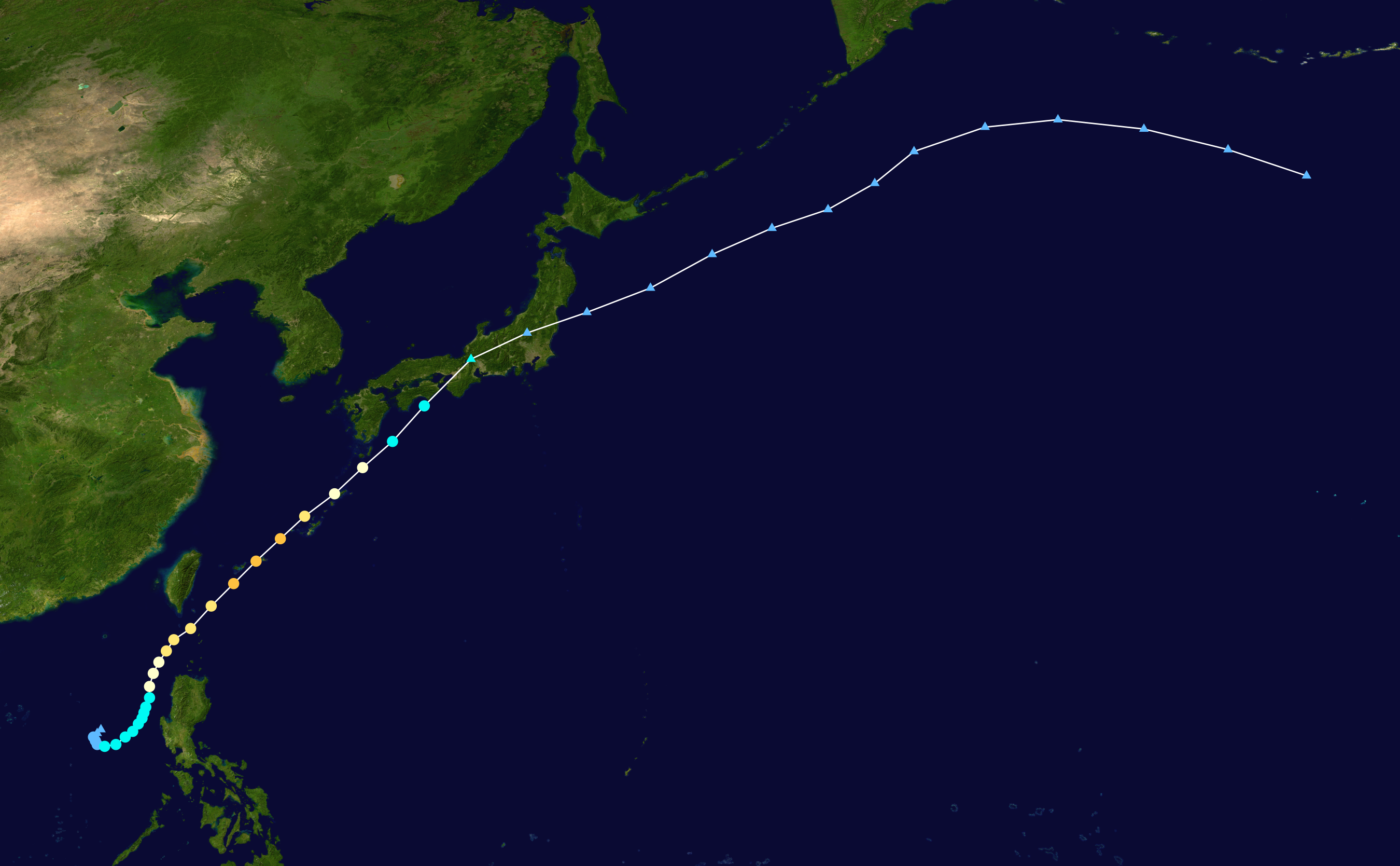 Typhoon Conson (2004) track. Uses the color scheme from the Saffir-Simpson Hurricane Scale.